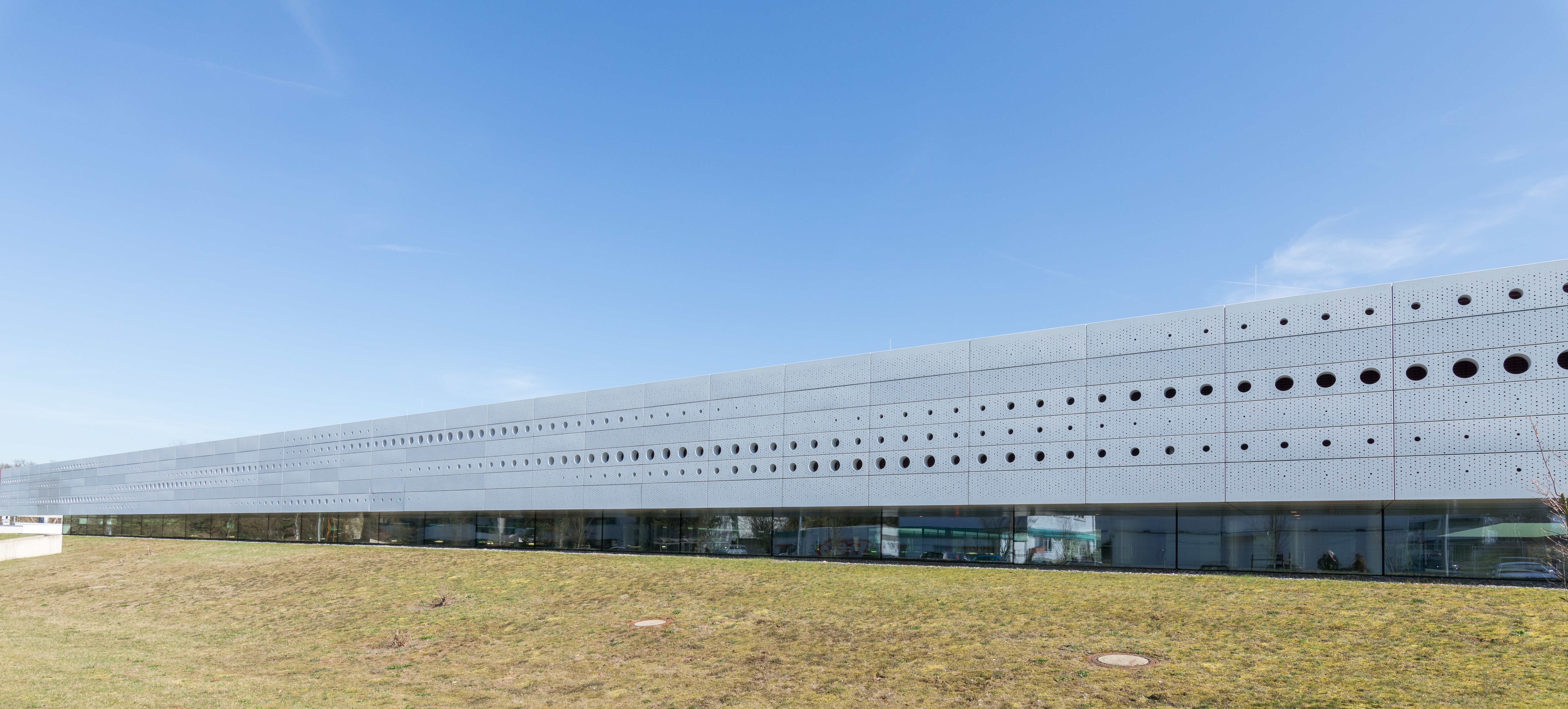 envihab, DLR Köln